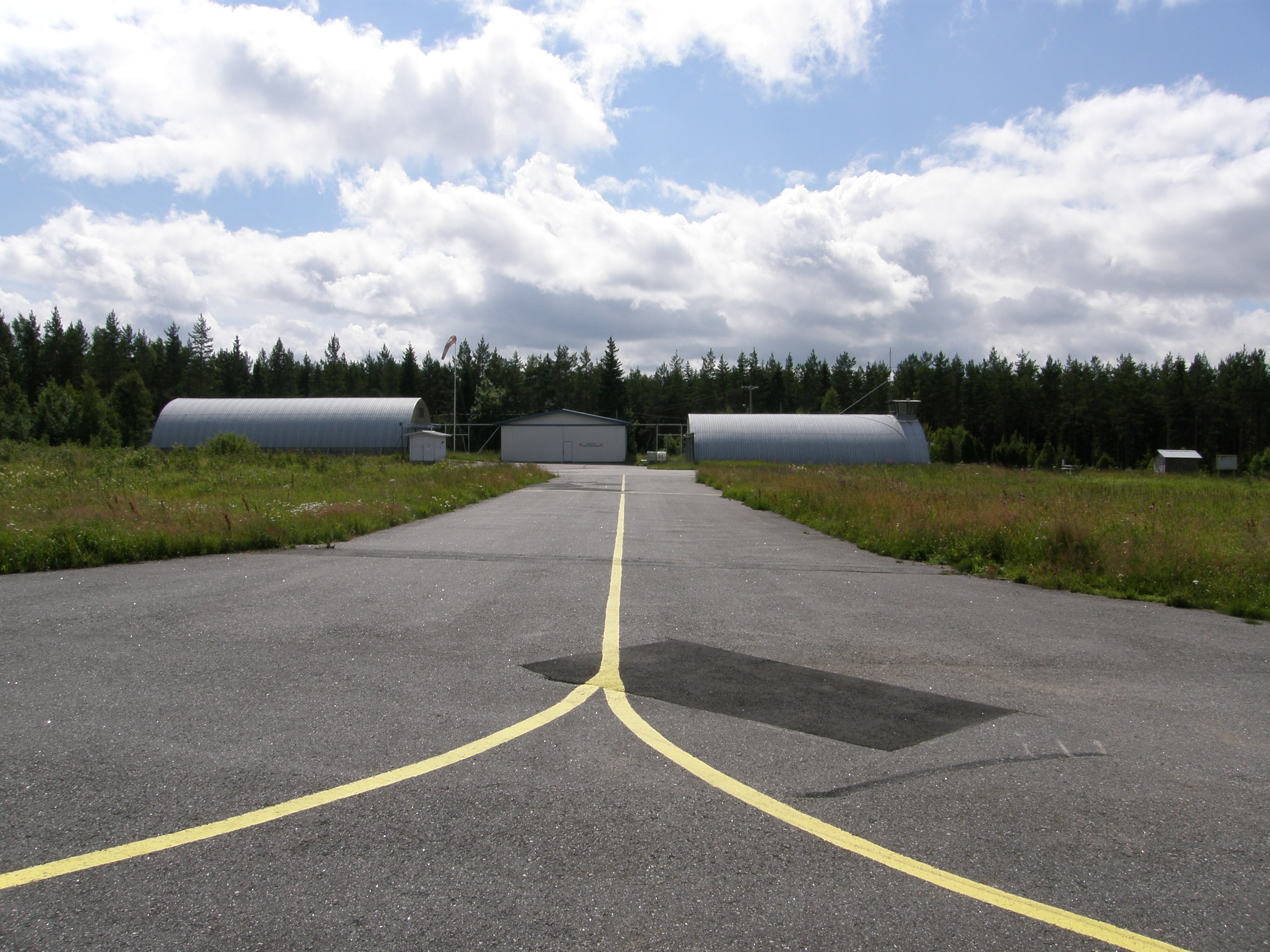 Taxiway and apron of Eura Airfield (EFEU), in Eura, Finland, seen from the crossing of runway 11/29